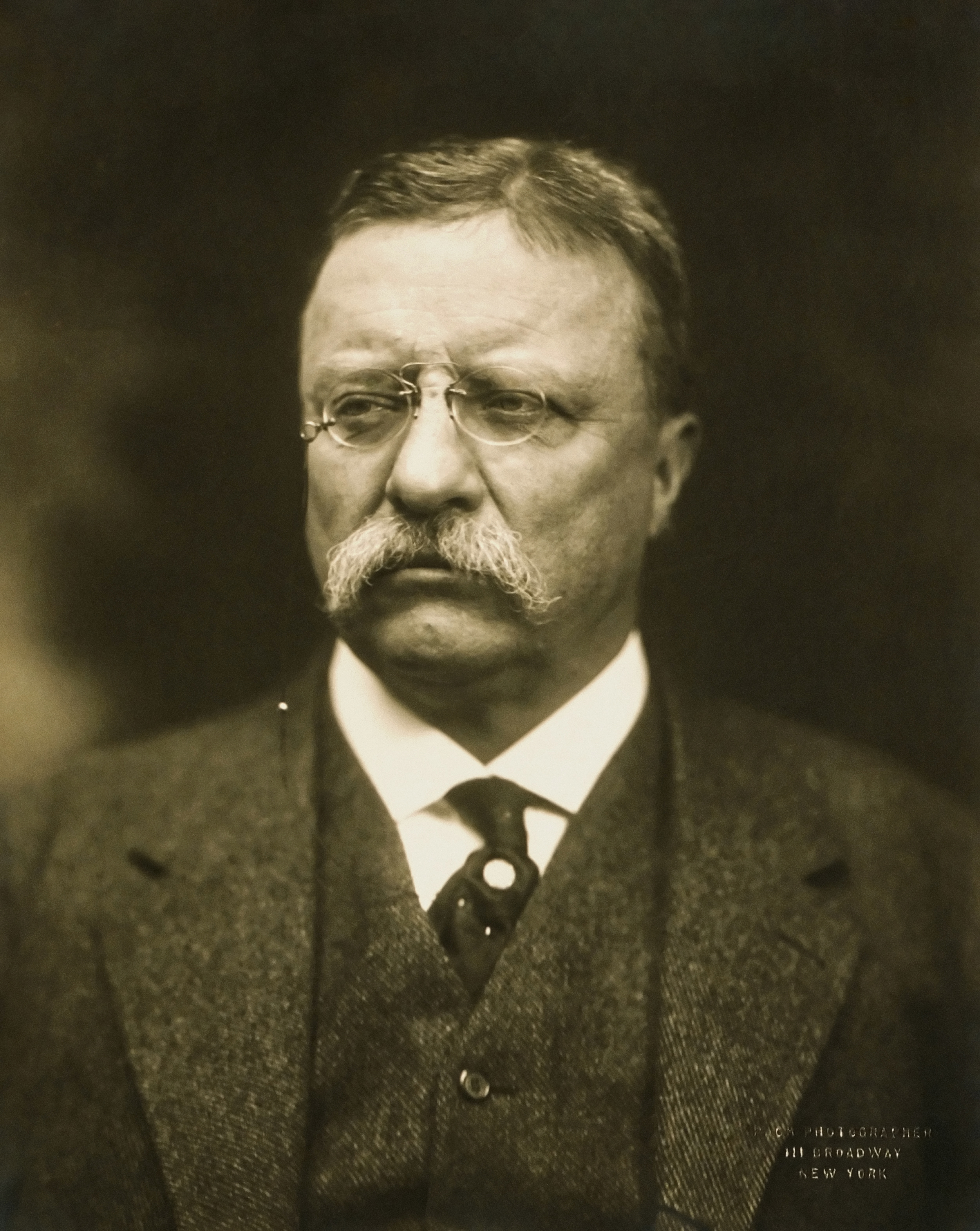 Theodore Roosevelt, former President of the United States.